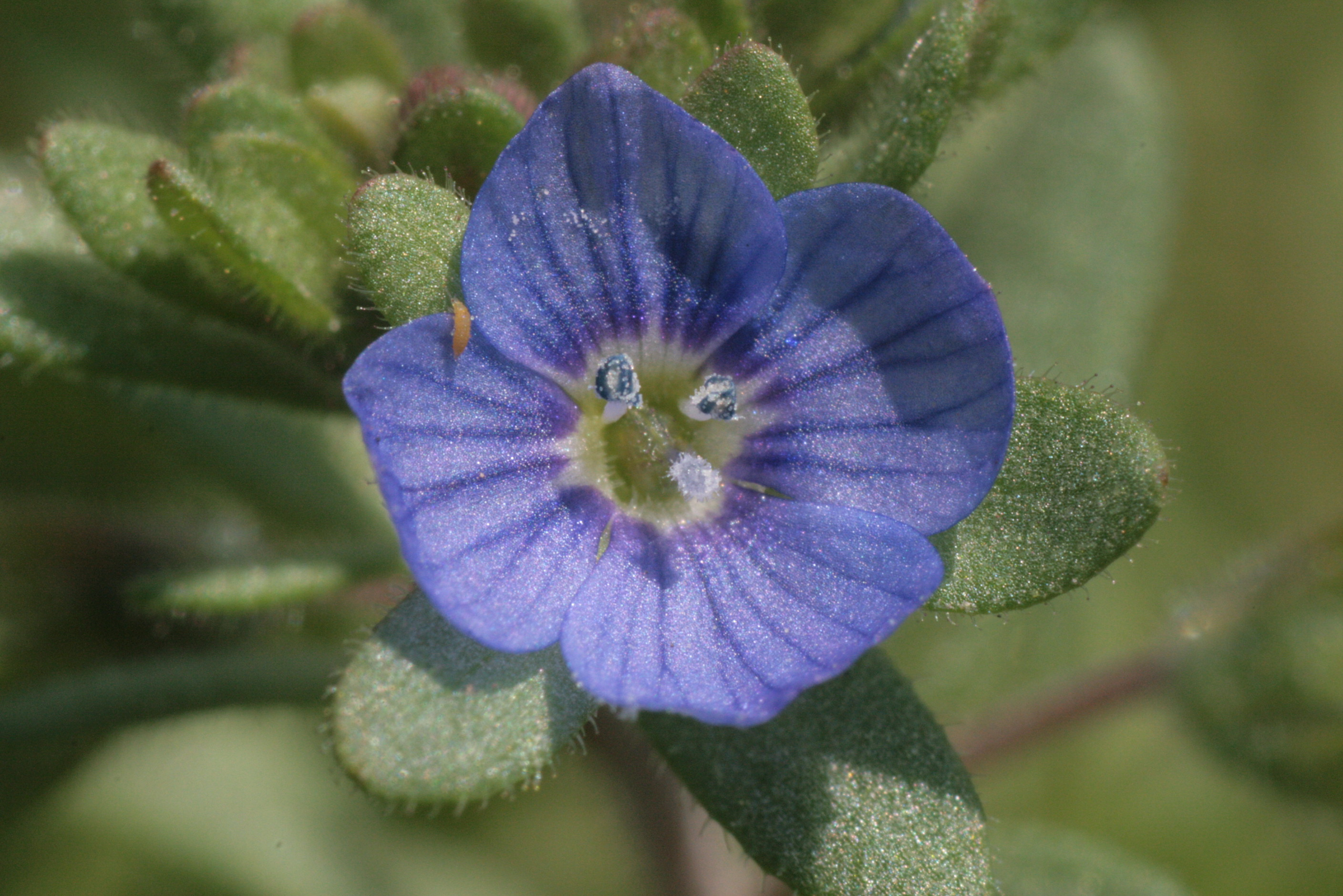 Veronica triphyllos